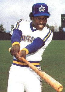 Professional baseball player Len Randle